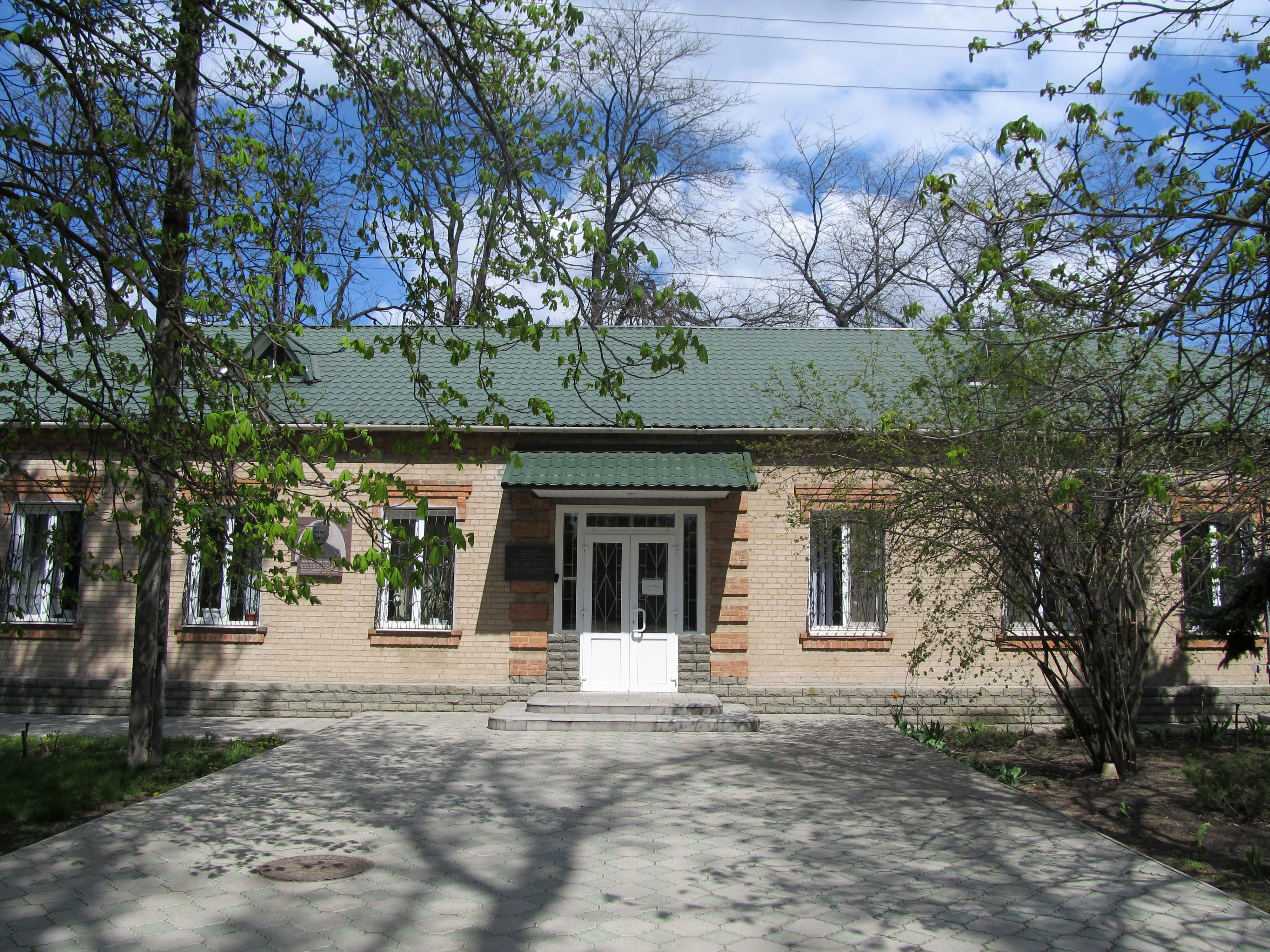 Vakulenchuka Street (Melitopol, Zaporizhia Oblast, Ukraine).